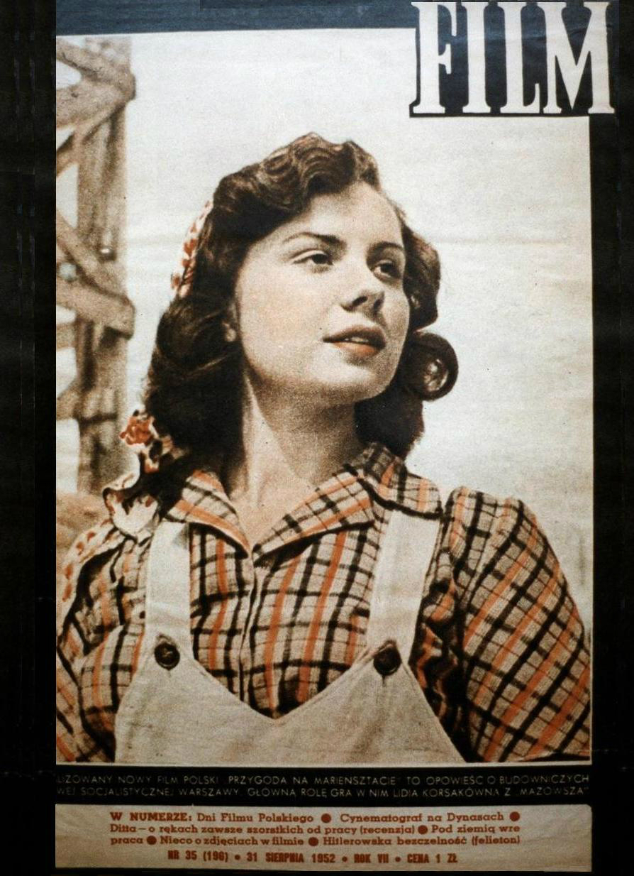 A Polish defunct magazine "Film" cover, published: August 1952.